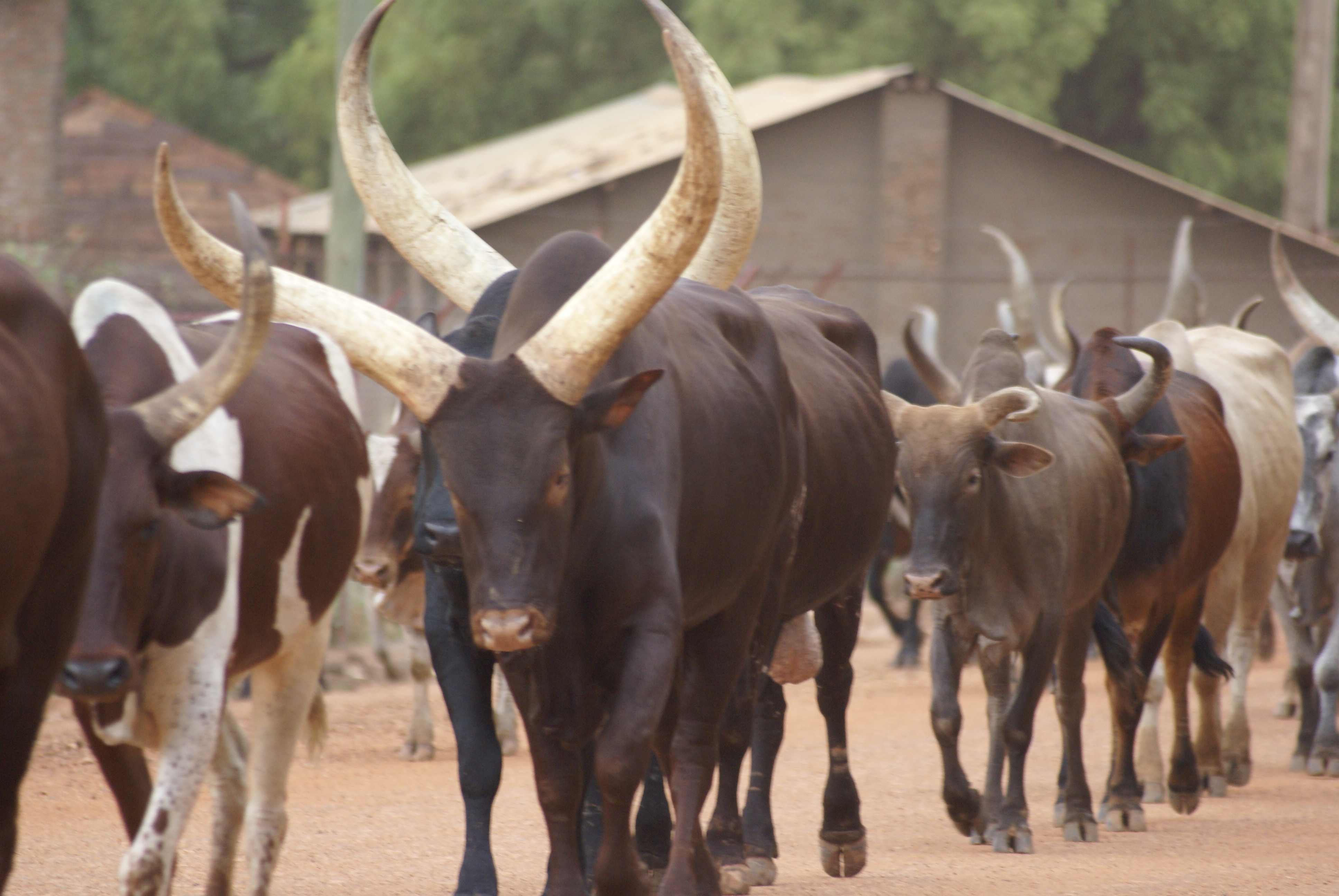 Cattle of the Dinka people in Juba, South Sudan.